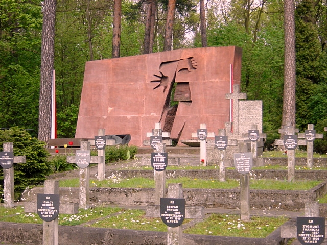 The War Cemetery commemorating 107 victims of the Wawer massacre, done by German police in German-occupied Poland on 27 XII 1939 in Warsaw